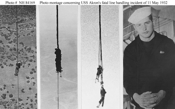 Montage of four photographs of the incident in which three line handlers were pulled into the air when Akron accidentally climbed while attempting to land at Camp Kearney, near San Diego, California, on 11 May 1932. The two views at left show Seaman Apprentice Charles M. Cowart clinging to the trail line as the airship crew slowly winched him on board. The photo at right is of Cowart on board the Akron after his rescue. The view second from right shows Sailors Nigel Merton Henton and Harold Edsal holding onto the lines just after Akron lifted off. Both men fell to their deaths immediately after the photograph was taken.